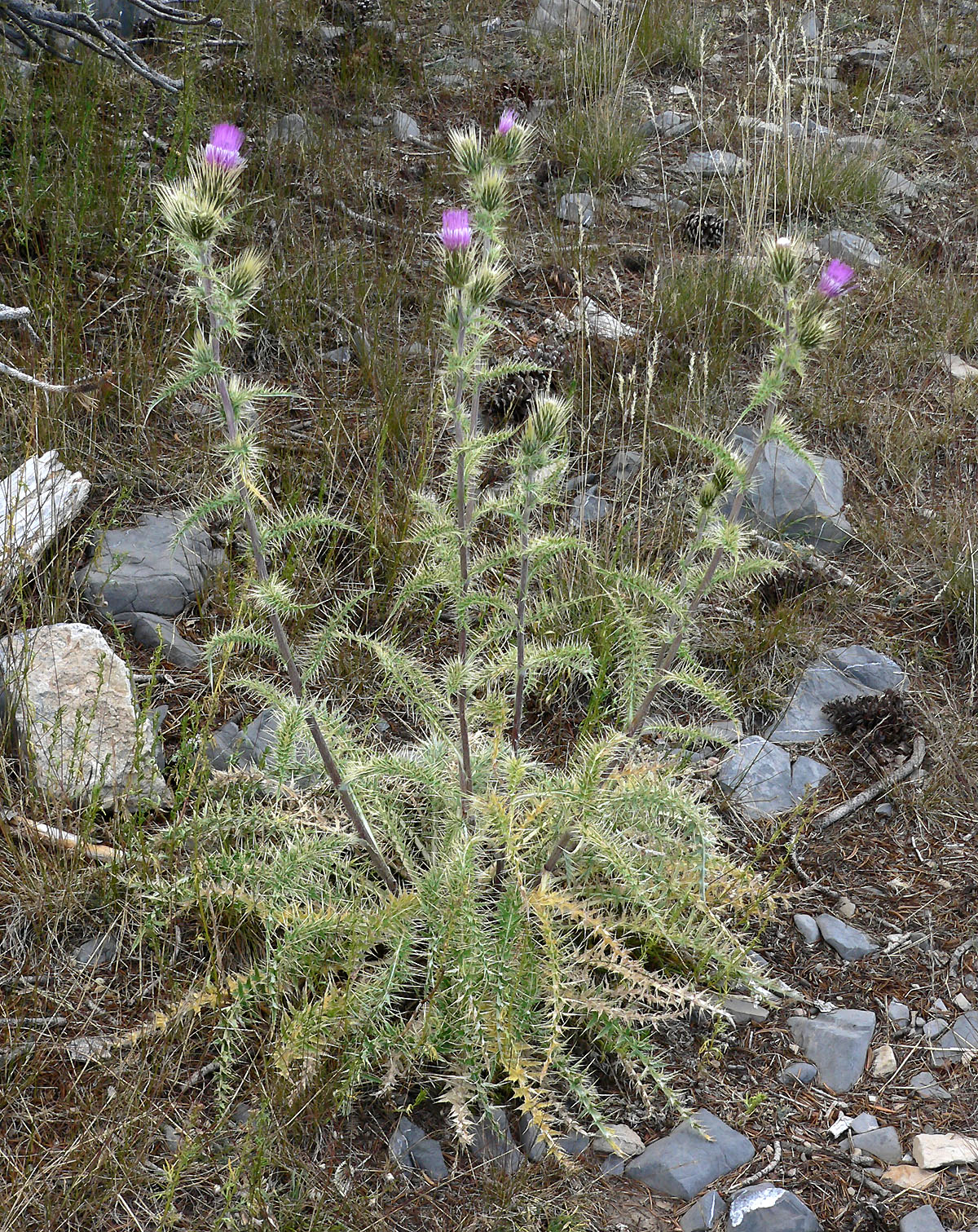 Cirsium eatonii var. clokeyi on South Loop ridge near Griffith Peak, Spring Mountains, southern Nevada (elev. about 3300 m)